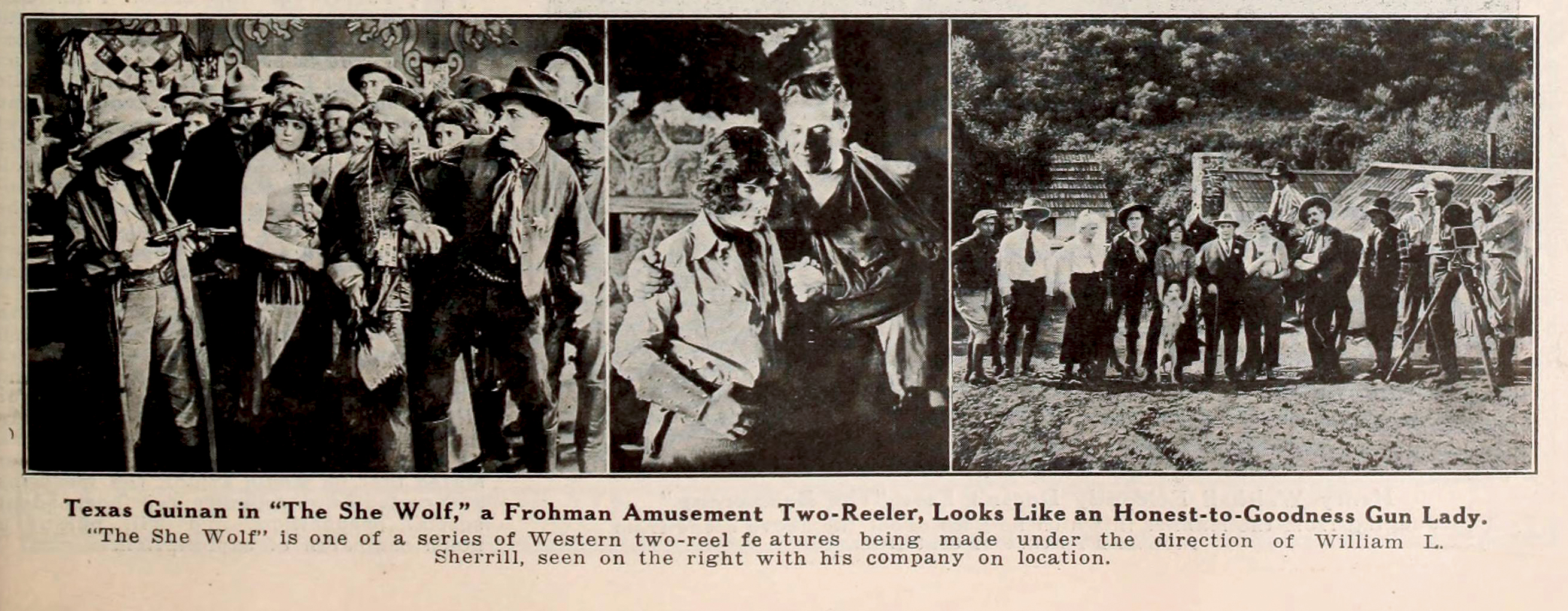 From Moving Picture World, May 1919 for the western film The She Wolf (1919).